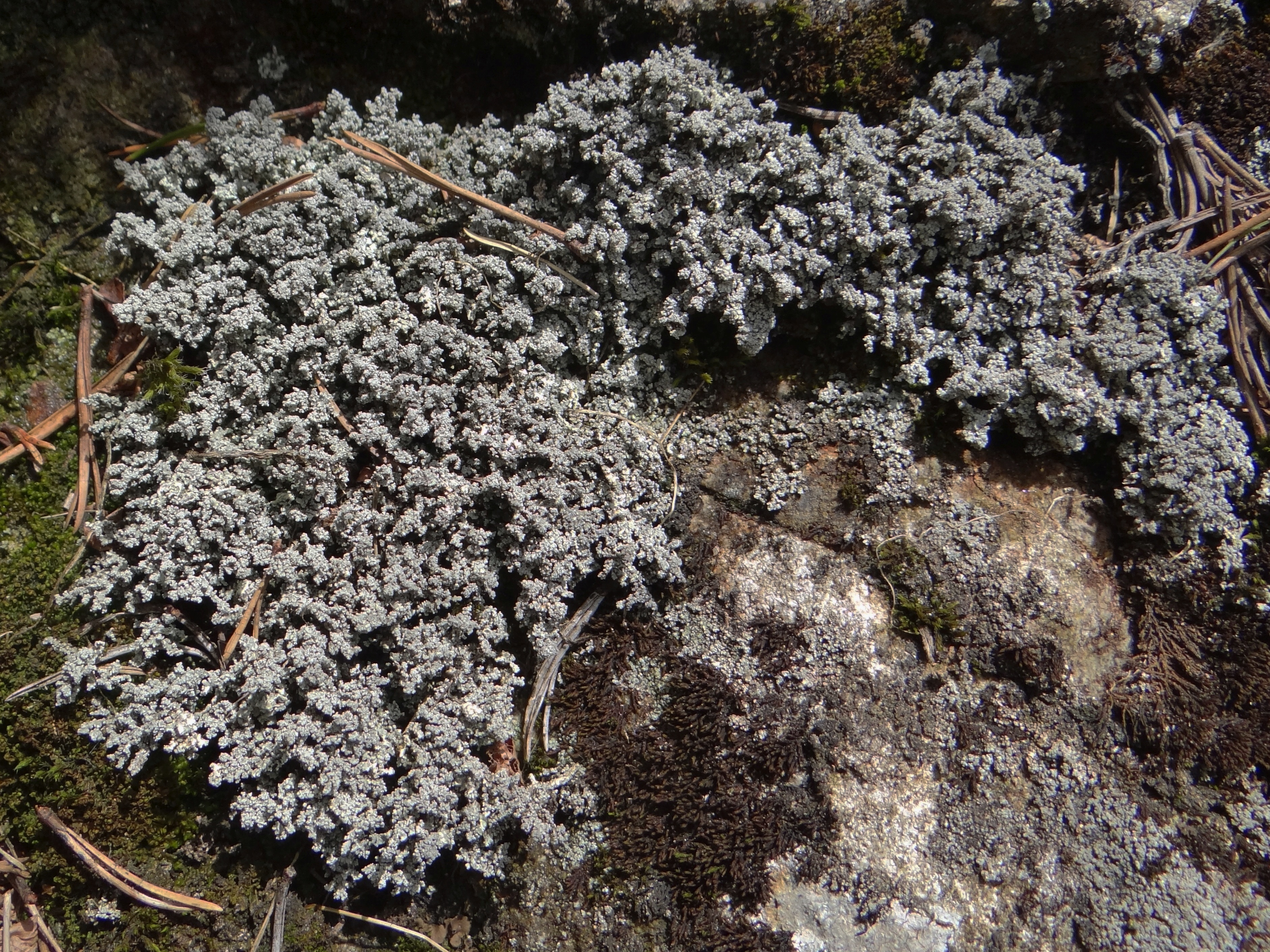 Stereocaulon paschale (location: Poland, Tatra Mountains, Suche Czuby Kondrackie)